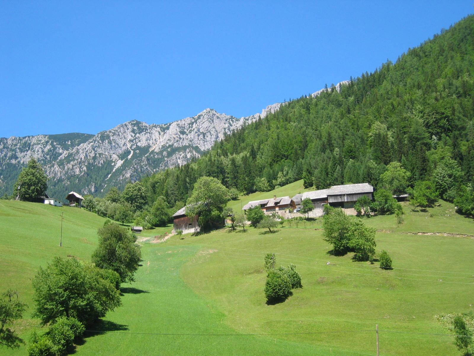 Old farmhouse in landscape park of valley Topla, Slovenia photo:Ziga 13:00, 13 August 2006 (UTC)